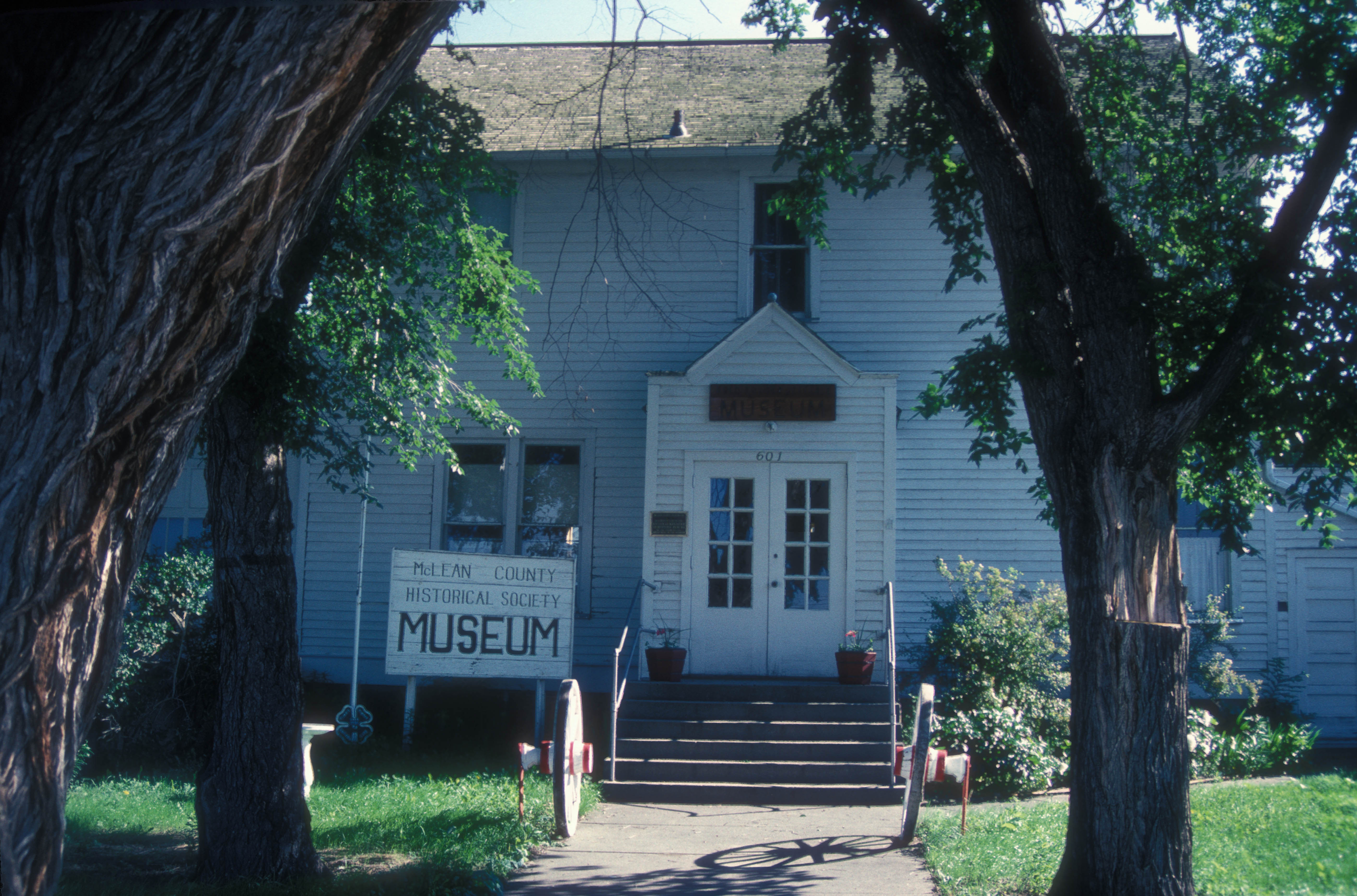 BUILT 1905; NOW THE HISTORICAL MUSEUM